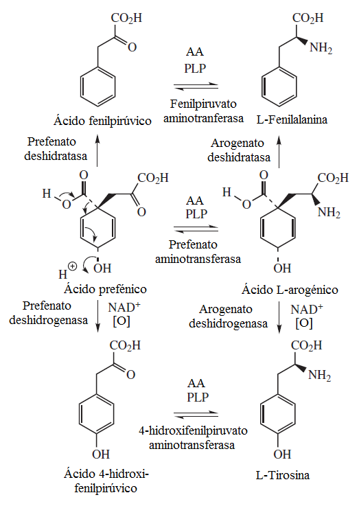 Prephenate pathways scheme